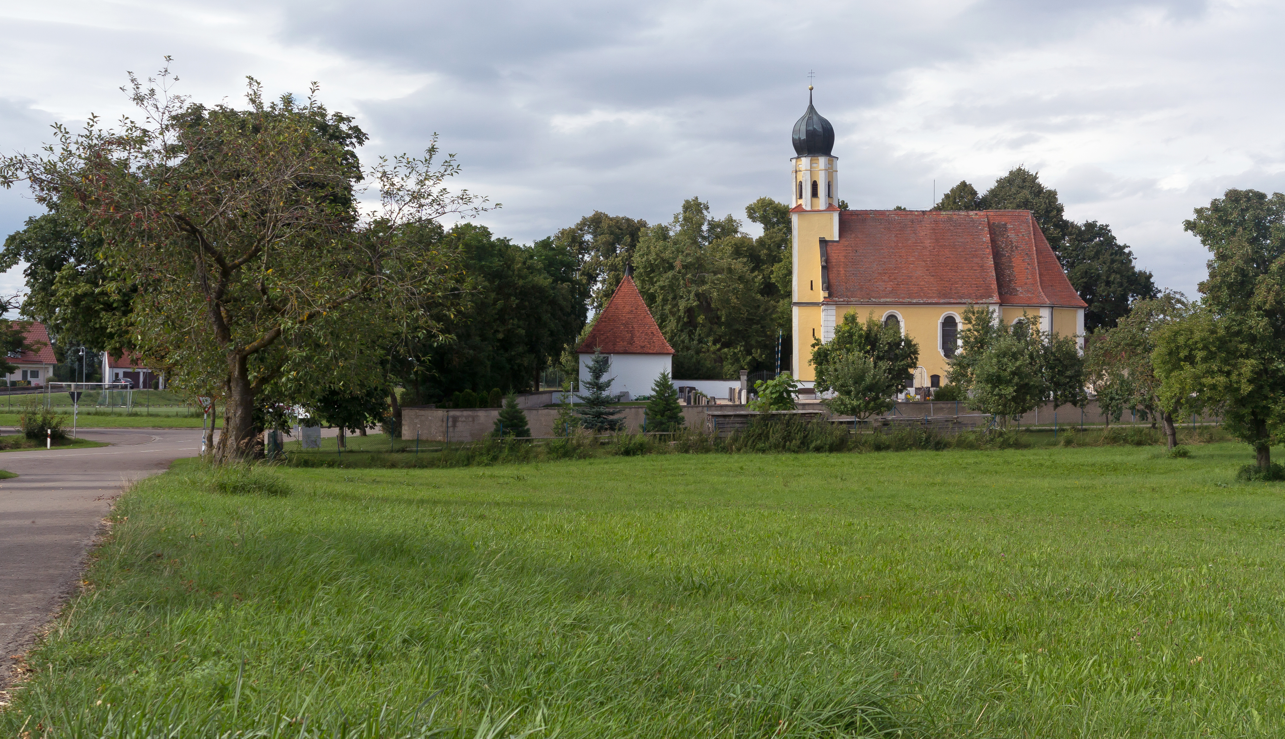 Amerdingen, church: katholische Pfarrkirche Sankt VitusThis is a photograph of an architectural monument.